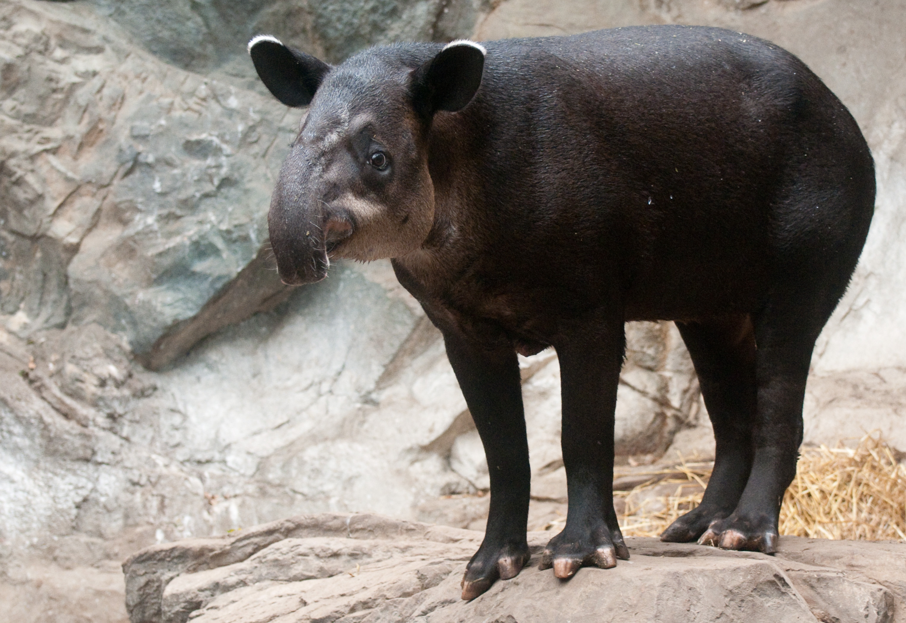 Baird's Tapir at Franklin Park Zoo, Massachusetts, USA.